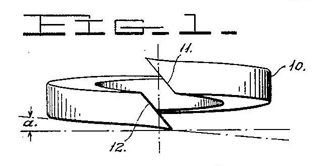 Lockwasher involved in lawsuit described in article National Lockwasher Co. v. George K. Garrett Co.